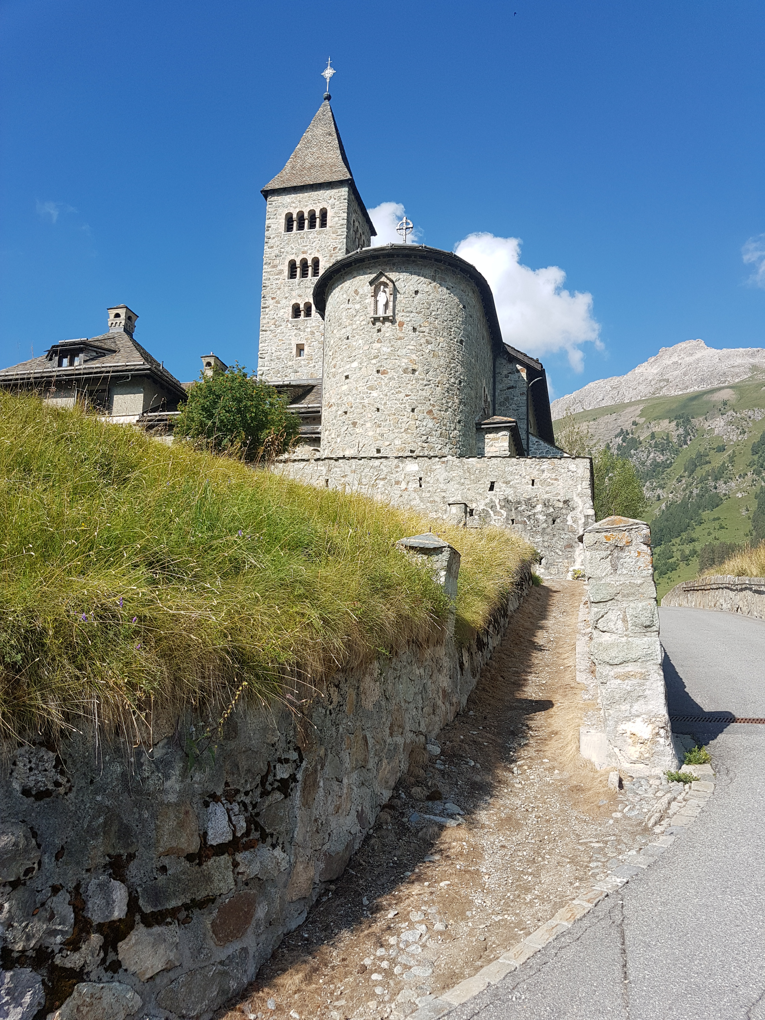 Baselgia catolica Herz-Jesu (catholic Church: Sacred Heart) in Samedan, Grisons, Switzerland.